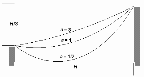 Three different catenary curves through the same points. Each curve corresponds to different values of horizontal force T H {\displaystyle T_{H}\,} , being a = T H w H {\displaystyle a={\frac {T_{H {wH } , and w the weight per unit of length